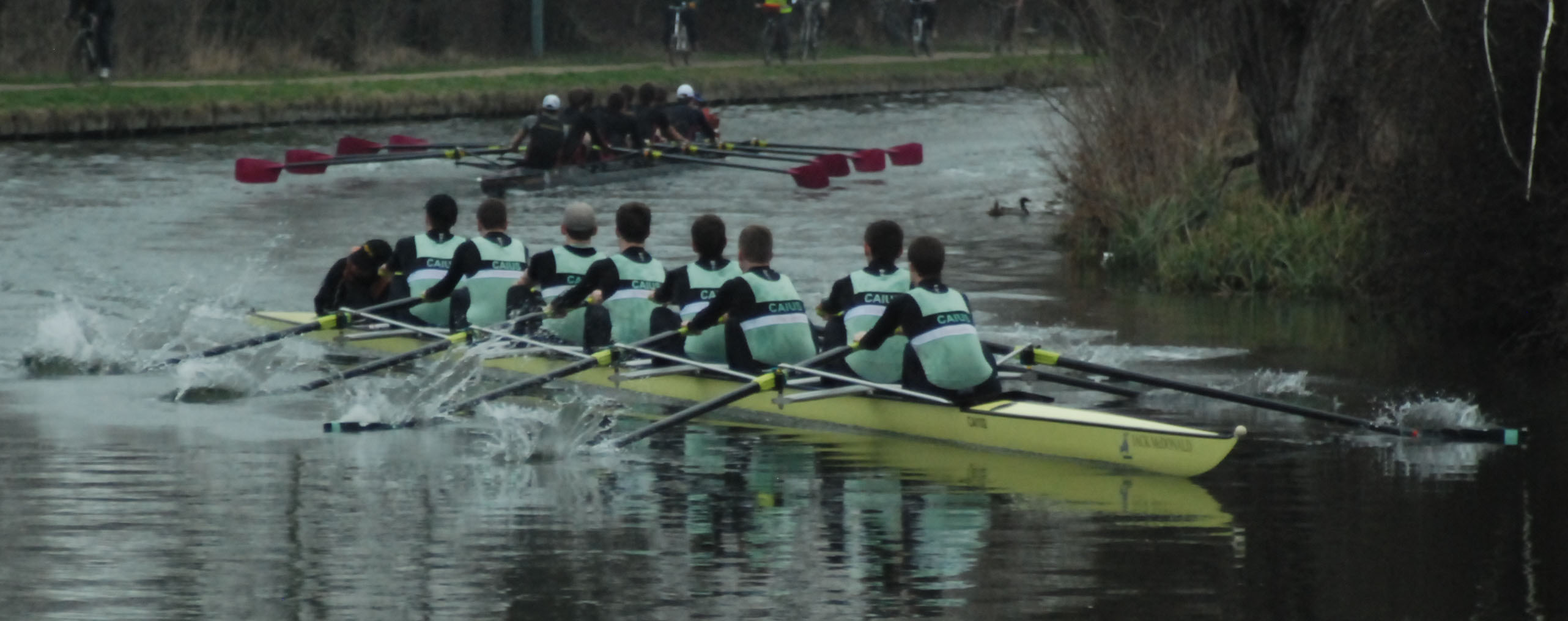 Caius ahead of Downing, Lent bumps 2012, Friday.